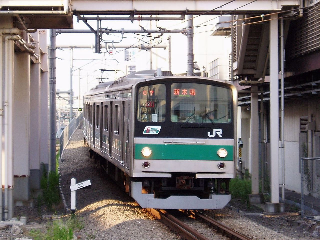 East Japan Railway Company, EMU type 205 Saikyo Line at Ikebukuro Sta.